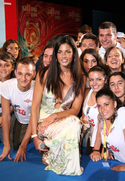 Miss Italia 2001 Daniela Ferolla